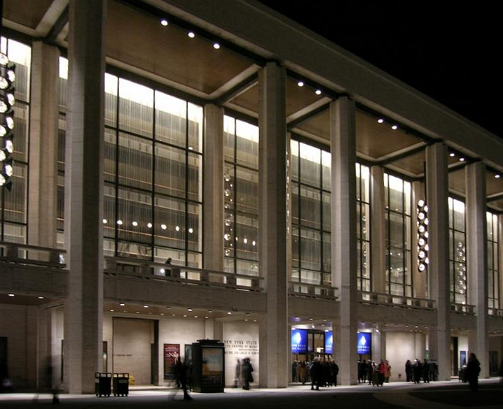 Photograph of the facade of the New York State Theater at Lincoln Center, New York, New York, taken on 10 February 2006 by Kevin Burdette and released into the public domain on 10 February 2006 by the photographer.